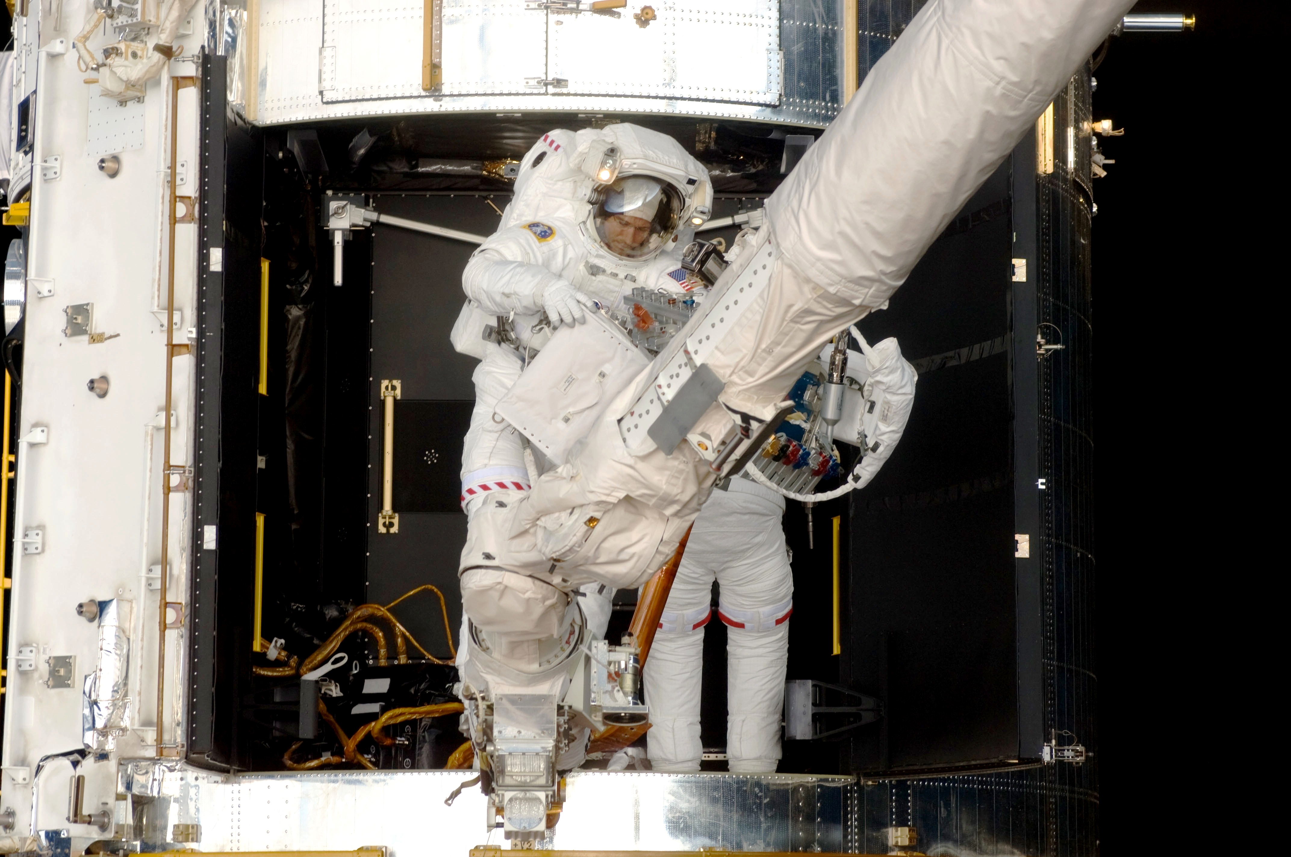 Astronauts Michael Good and Mike Massimino (partially obscured), both STS-125 mission specialists, participate in the mission's fourth session of extravehicular activity (EVA) as work continues to refurbish and upgrade the Hubble Space Telescope. During the eight-hour, two-minute spacewalk, Massimino and Good continued repairs and improvements to the Space Telescope Imaging Spectrograph (STIS) that will extend the Hubble's life into the next decade.